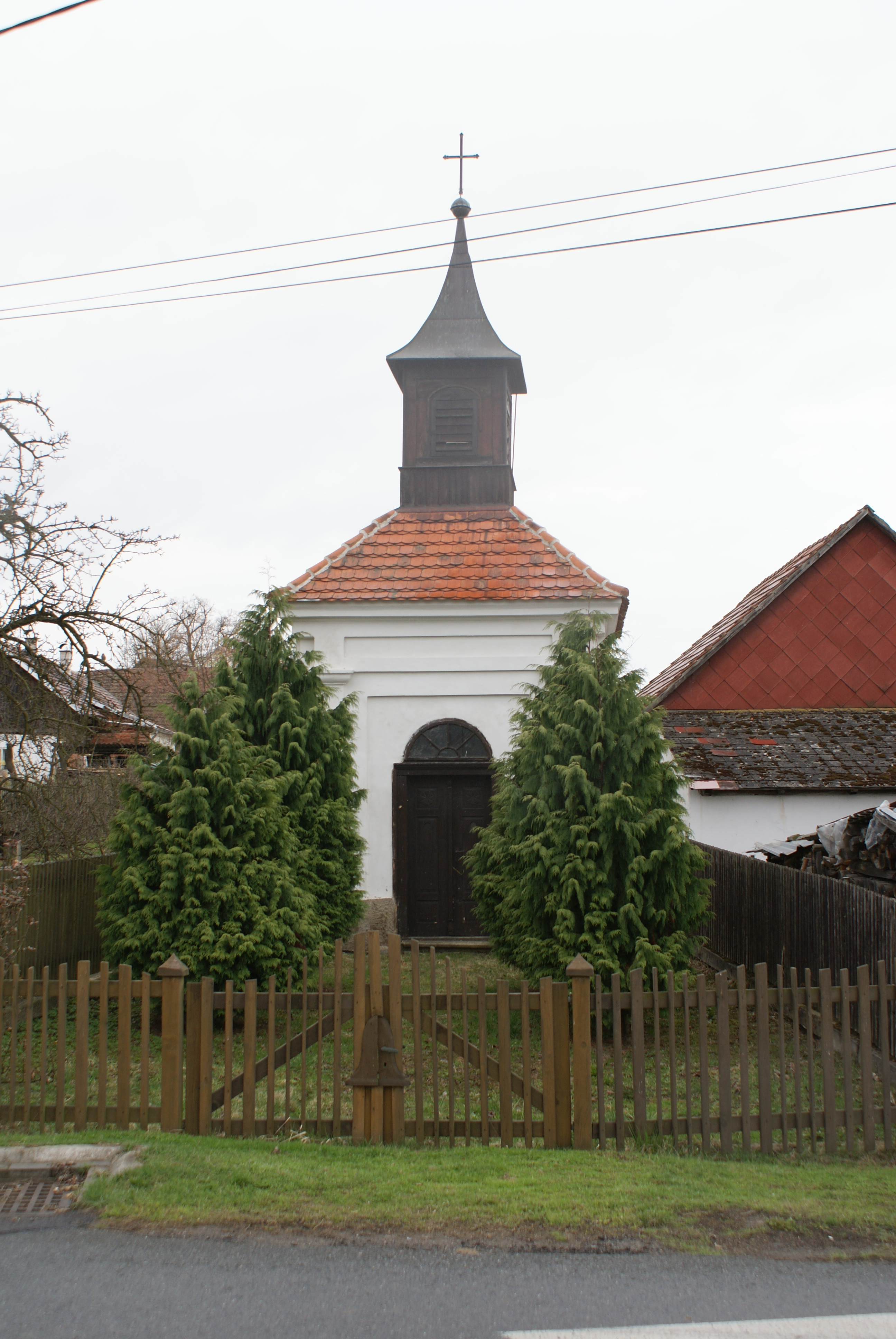 Zhůř, village in Plzeň jih district, Czech Republic, a chapel.